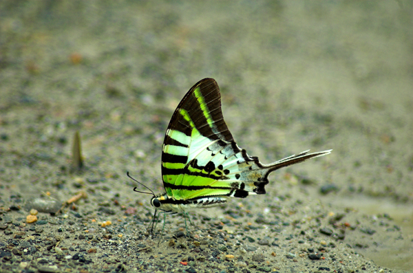 Mudpuddling Fivebar Swordtail (Pathysa antiphates). Taken by Arif Siddiqui. Posted on commons with kind permission of author.